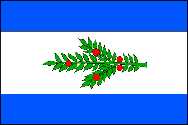 Municipal flag of Tisá village, Ústí nad Labem District, Czech Republic.